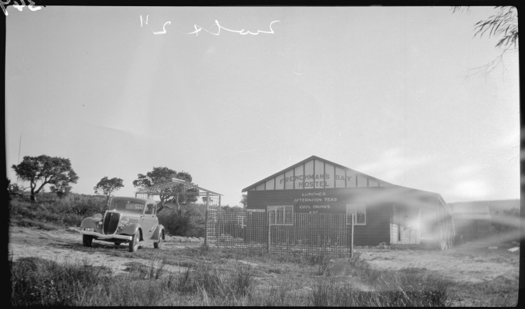 Hostel at Frenchman Bay, Torndirrup Peninsula, Albany, Western Australia.